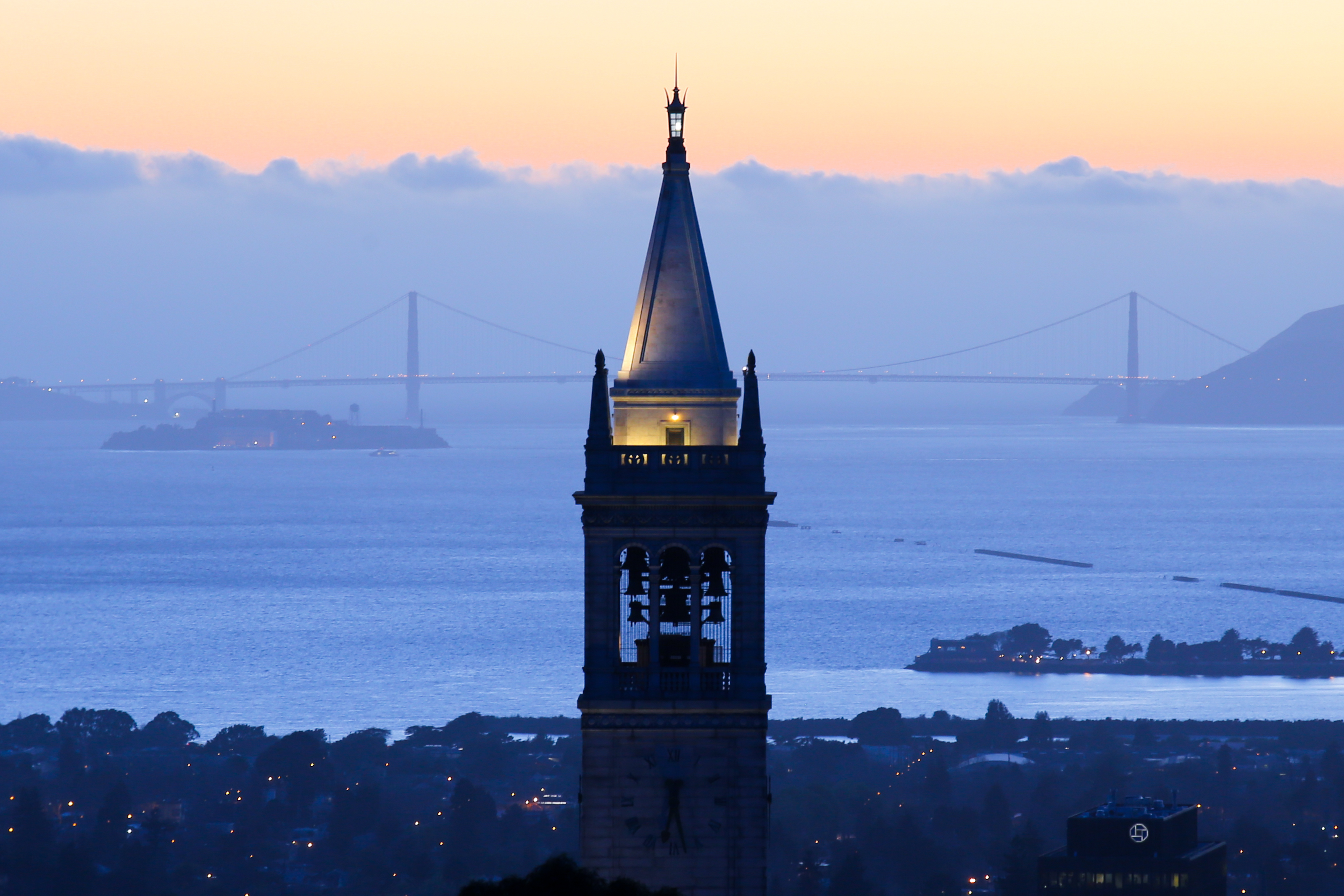 Berkeley, California. [Canon 6d / 70-300mm]